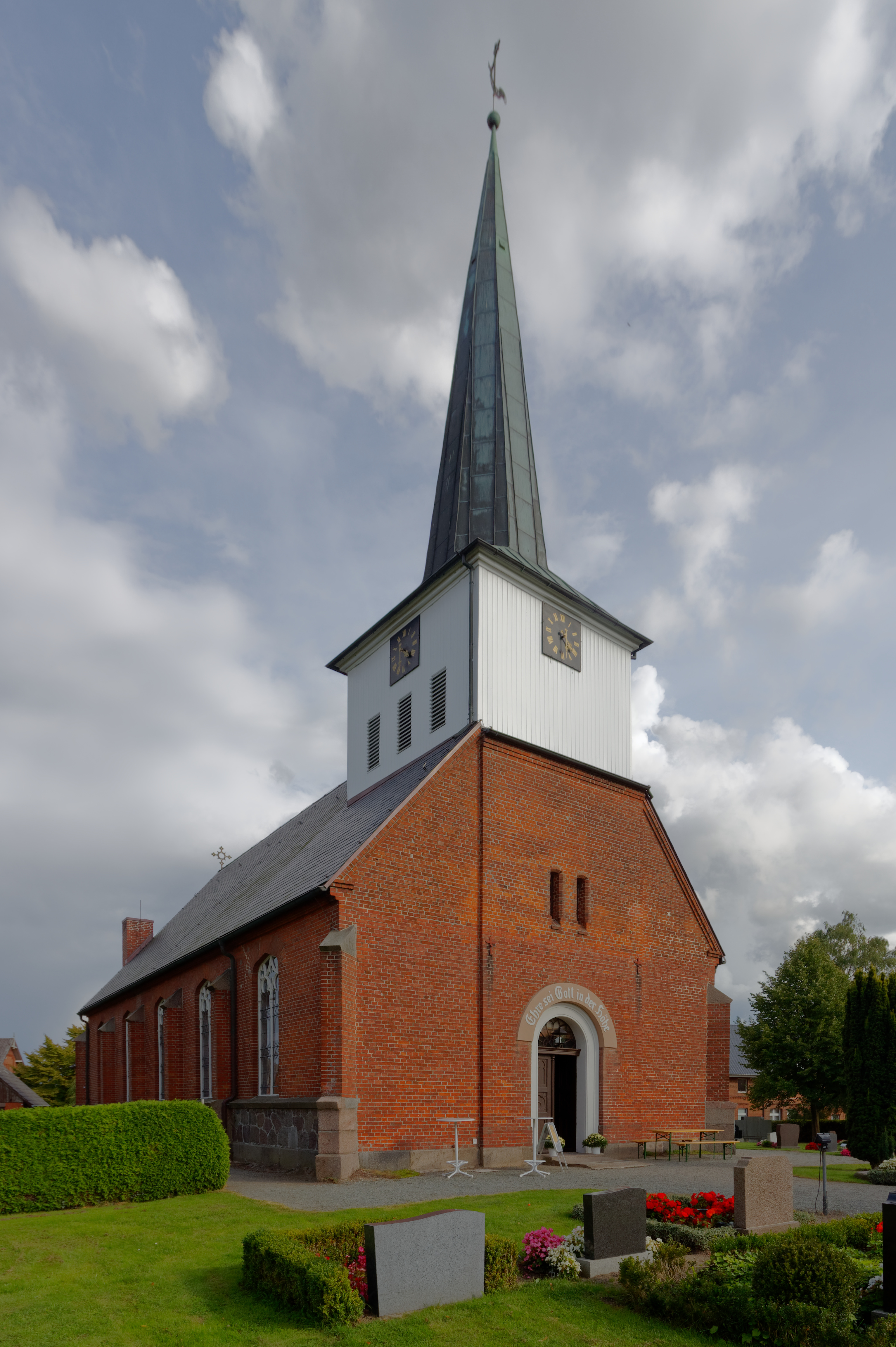 Church St. Maria in Siebenbäumen, northwestern view